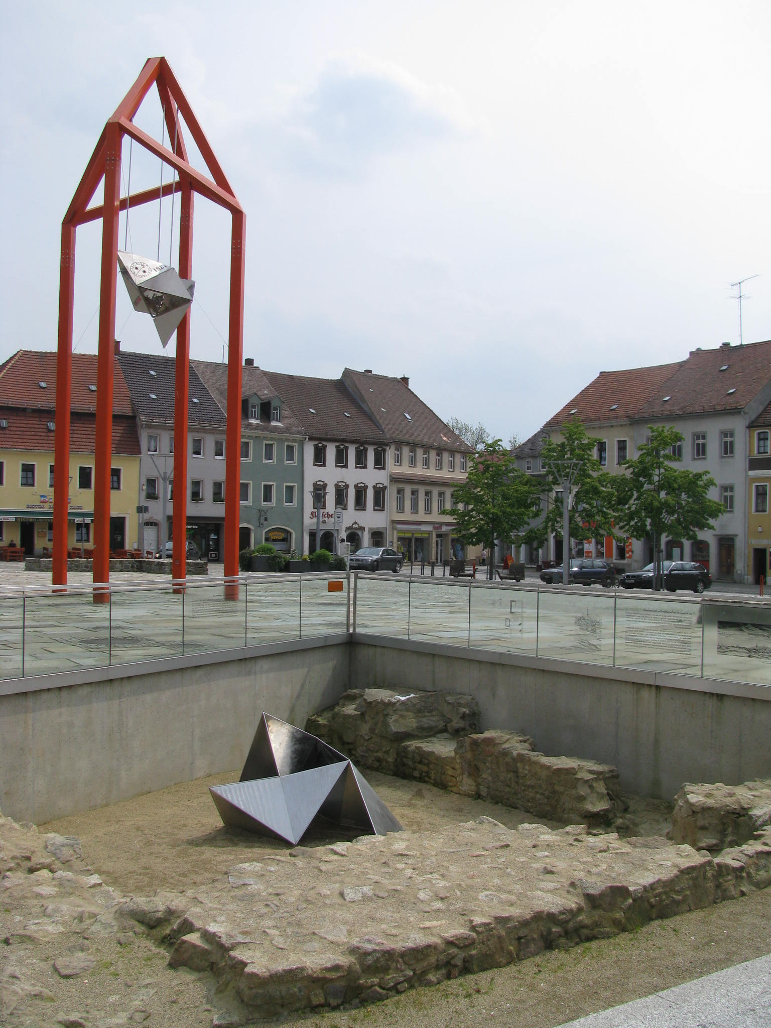 Old market place of Bischofswerda, to the viewers front are the rests of the oldest town hall and the newly build media tower